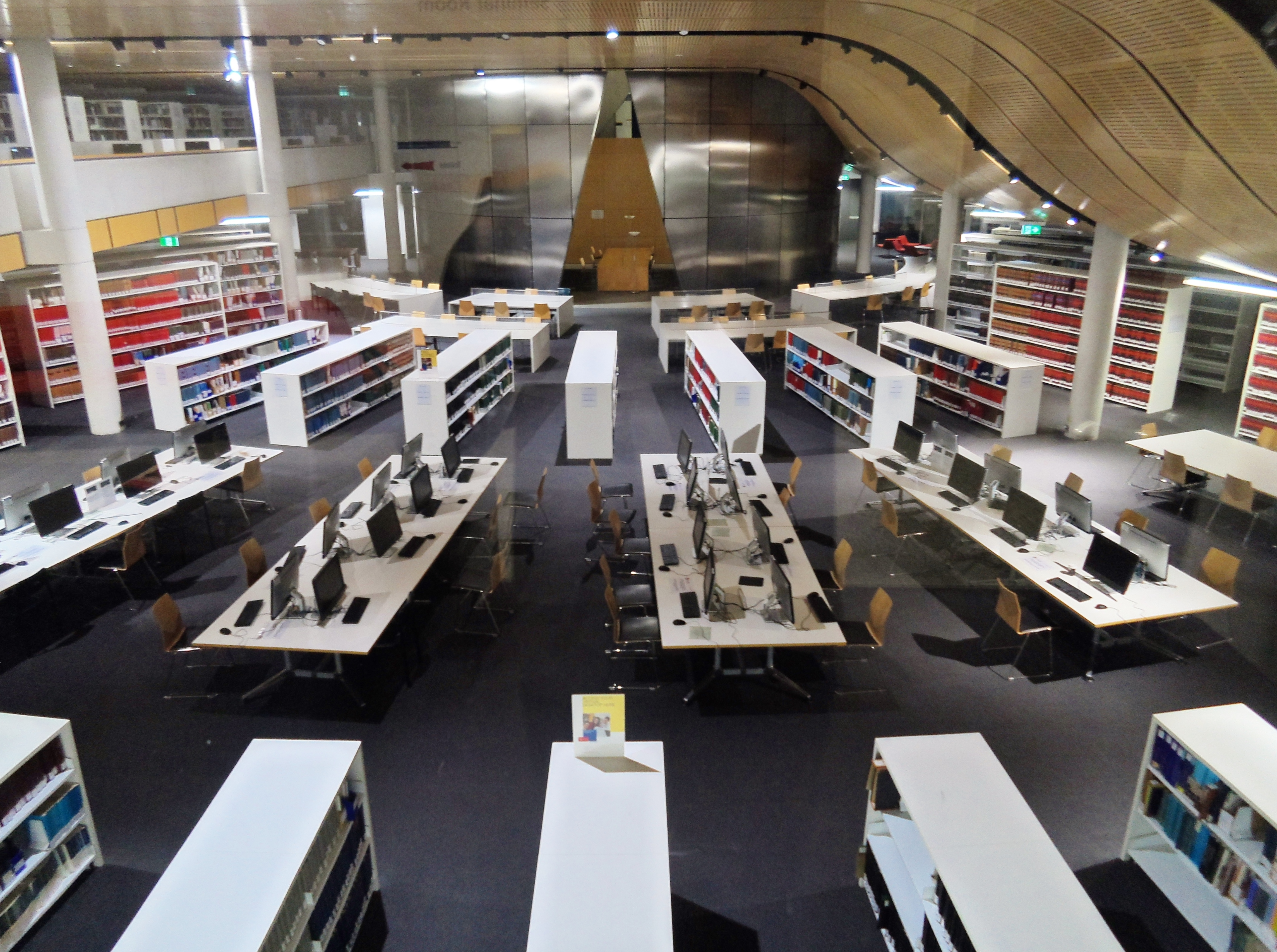 The Herbert Smith Freehills Law Library in the New Law Building at The University of Sydney in 2013.